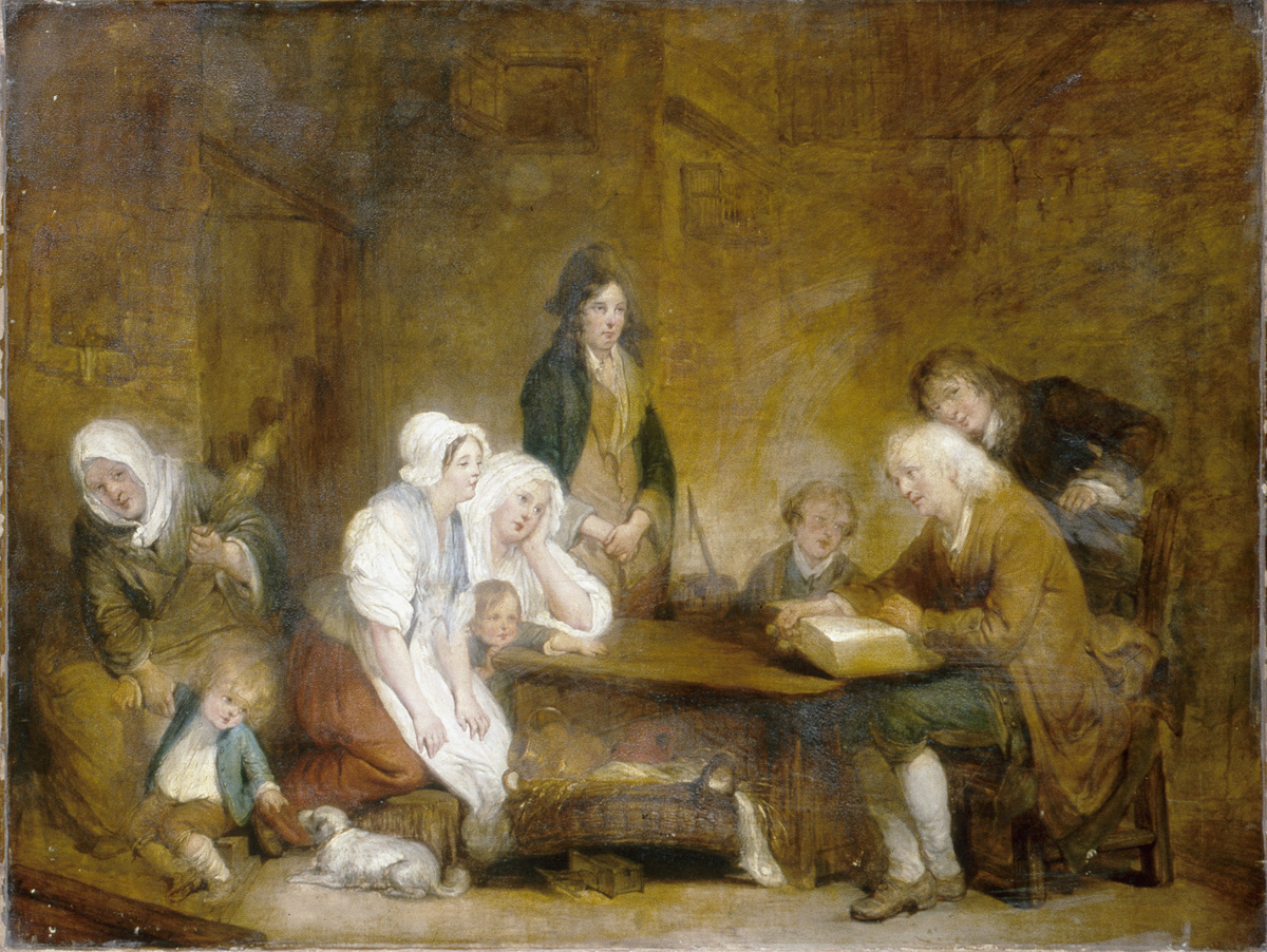 Collection: Brighton Museum and Art Gallery Description: This painting exemplifies the scenes of everyday life for which Greuze became so famous. After his unsuccessful attempt to gain acceptance to the Académie Royal as a high-status history painter, Greuze concentrated on painting scenes of peasant life. Here Greuze has paid great attention to detail and has used soft colouring to depict the badly illuminated, modest dwelling. Such works became very popular during the artist's lifetime. Current Accession Number FA000658 Measurements: 85 x 111.5 cm (estimate) Material: oil on canvas Acquisition Details: Given by Henry Griffiths 1891. Publications: Public Catalogue Foundation, Oil Paintings in Public Ownership in East Sussex, London, 2005, ill. p. 93.